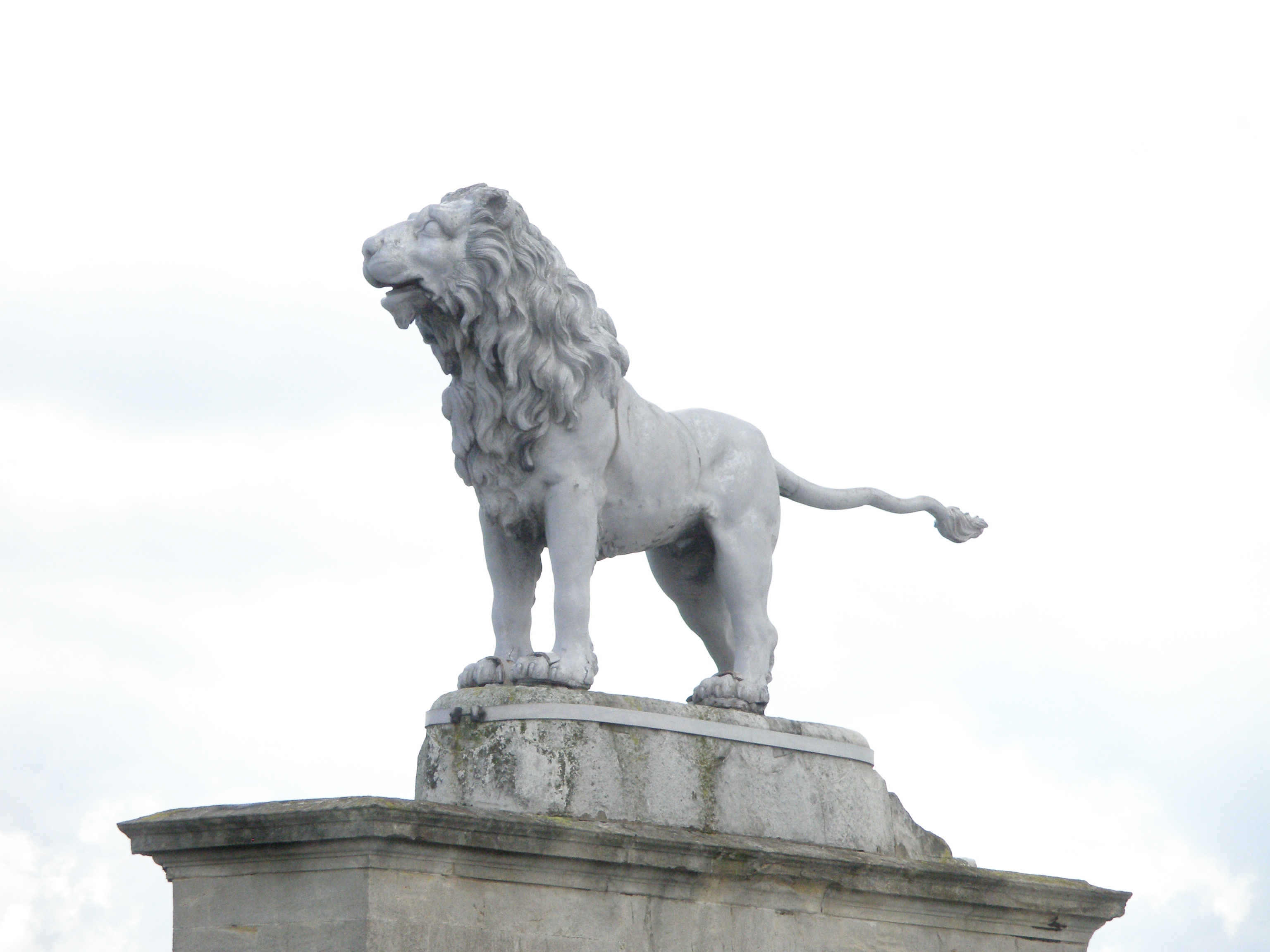 The Percy Lion (crest of Percy family) situated on the roof of Syon House, formerly on Northumberland House. More info